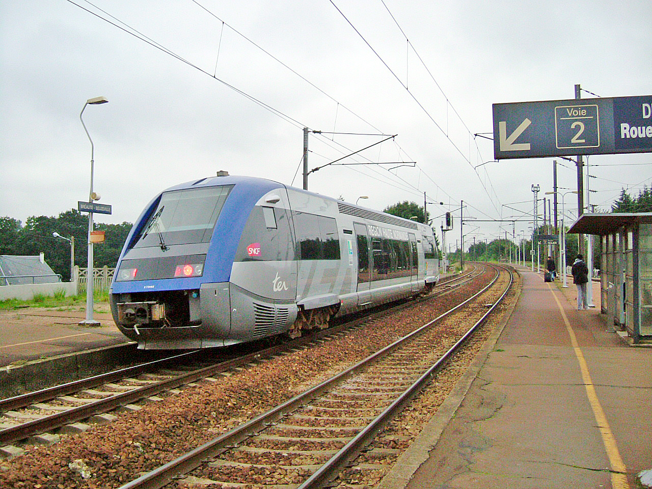 TER Class X at Bréauté-Beuzeville station